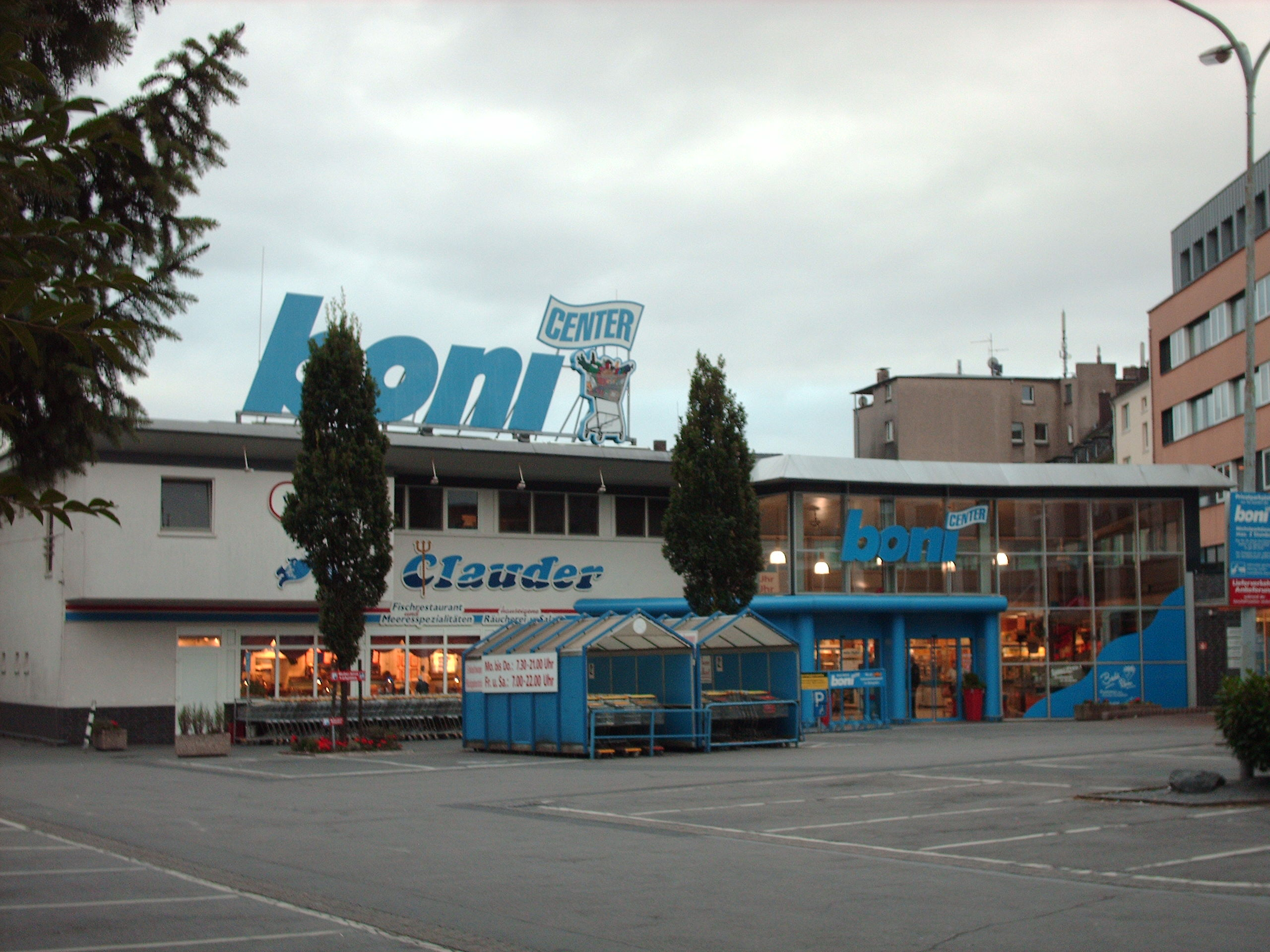 Boni-center, Witten, Germany